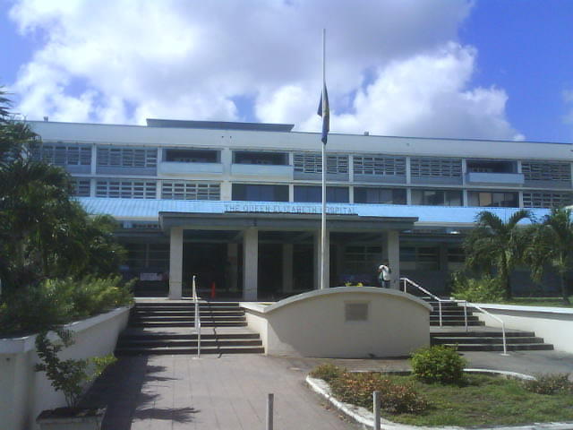 The Queen Elizabeth Hospital at Martindale's Road, Bridgetown, St. Michael.